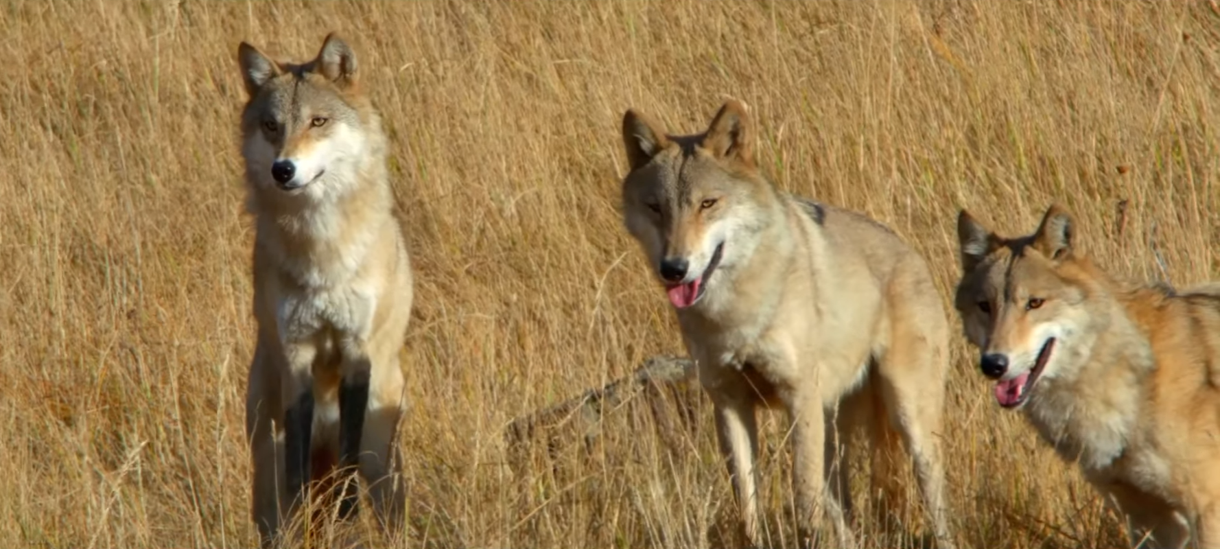 Screenshot of behind the scenes promotional video of Wolf Totem